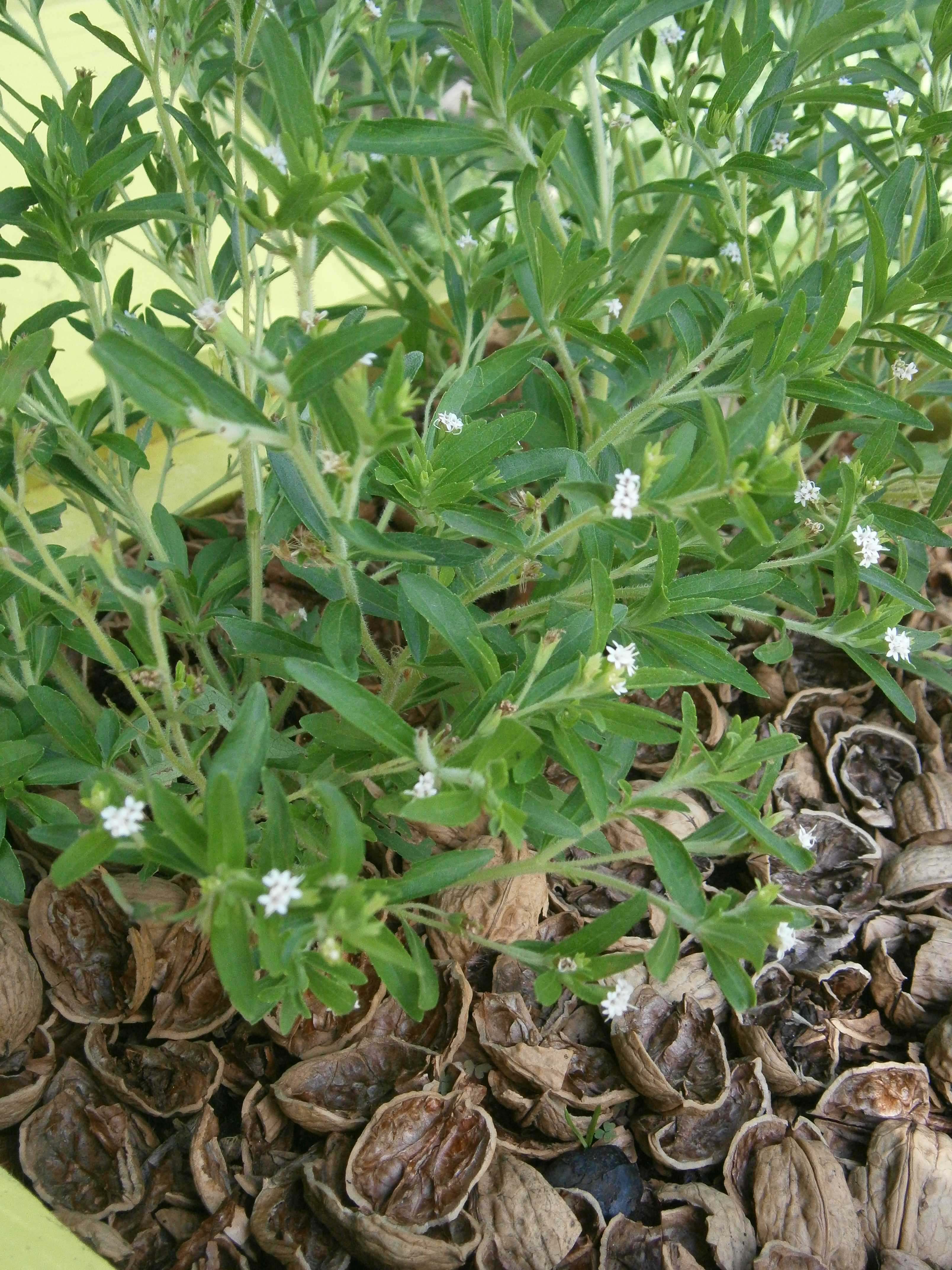 Stevia rebaudiana